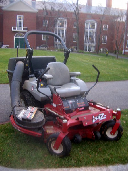 A riding mower on the campus of Harvard Business School.